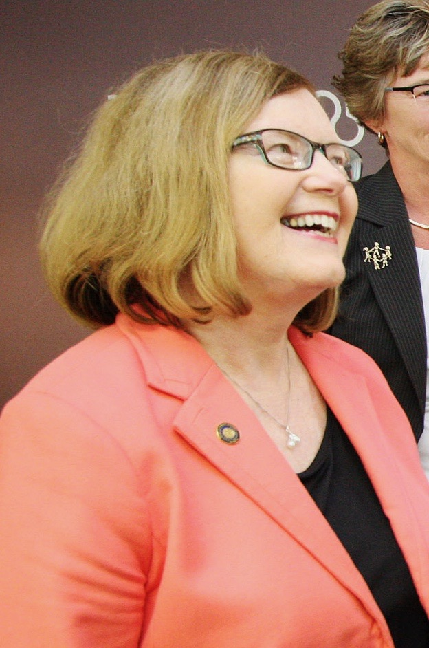 Original caption: U.S. Department of Labor Secretary Thomas E. Perez, right to left, talks with and Rep. Suzanne Bonamici, Hanna Vaandering, and Sen. Diane Rosenbaum at the Alzheimer’s Association of Oregon in Portland, Oregon on 08/26/2015. Andrea J. Wright / The Wright Pictures for U.S. Department of Labor